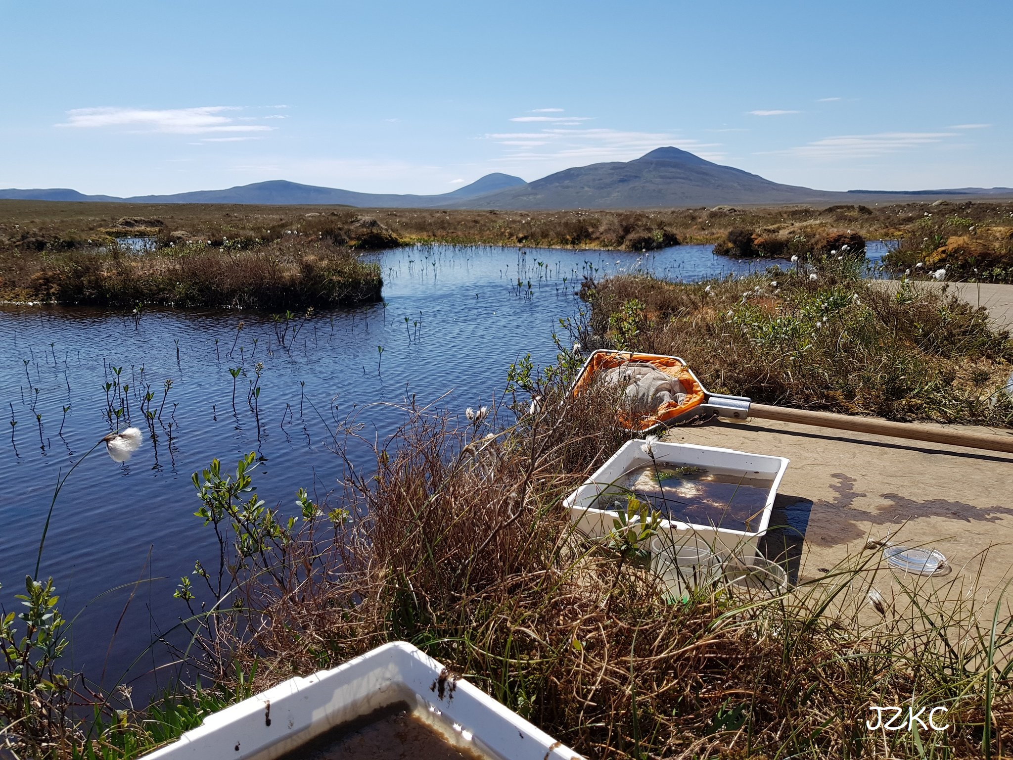 The Flow Country, Forsinard, Sutherland. Looking toward the Ben Griams.